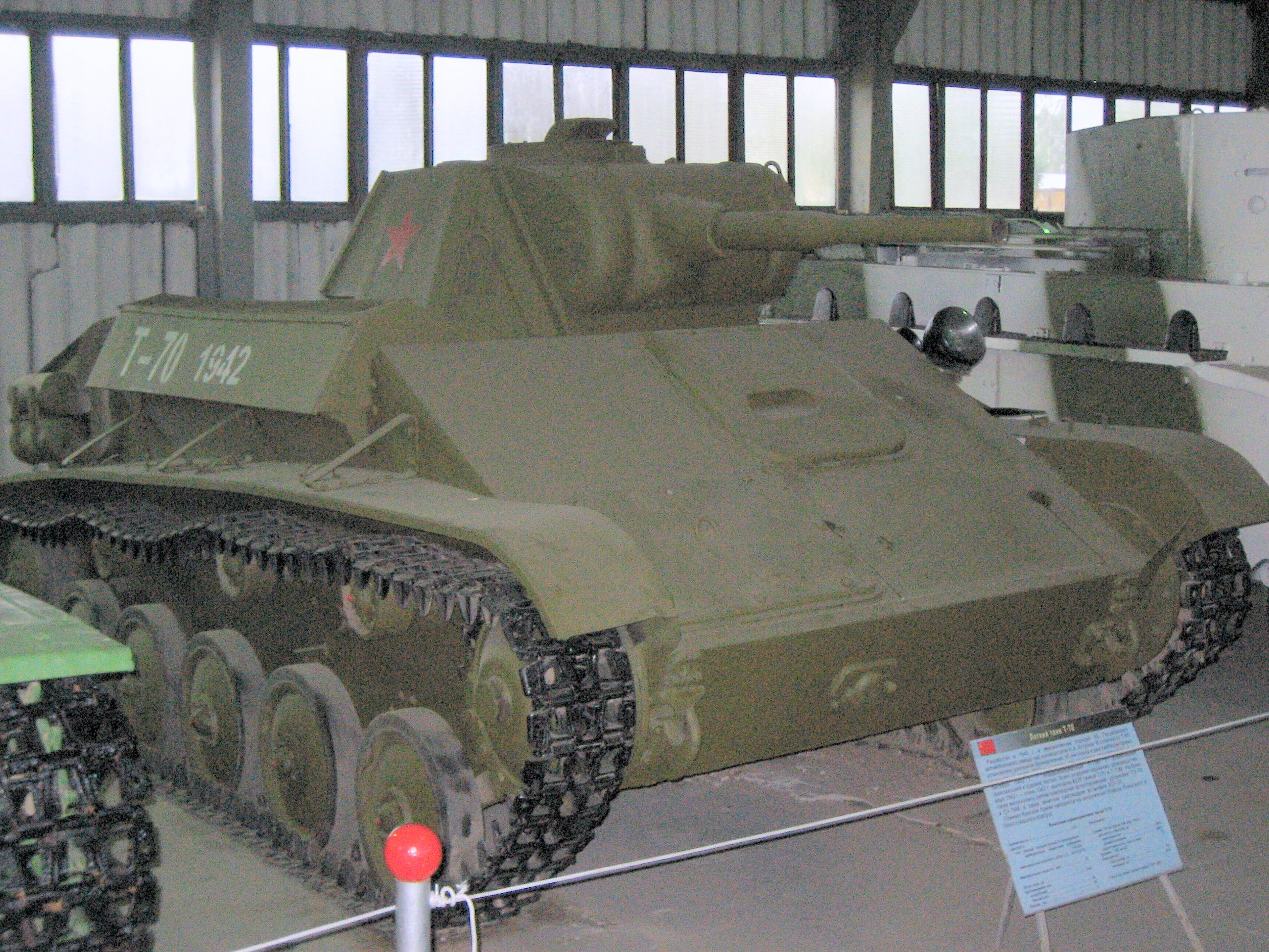 Soviet light infantry tank T-70, displayed in Kubinka Tank Museum. Photo taken on September 9, 2007. Source: Photo by me, User:Saiga20K.